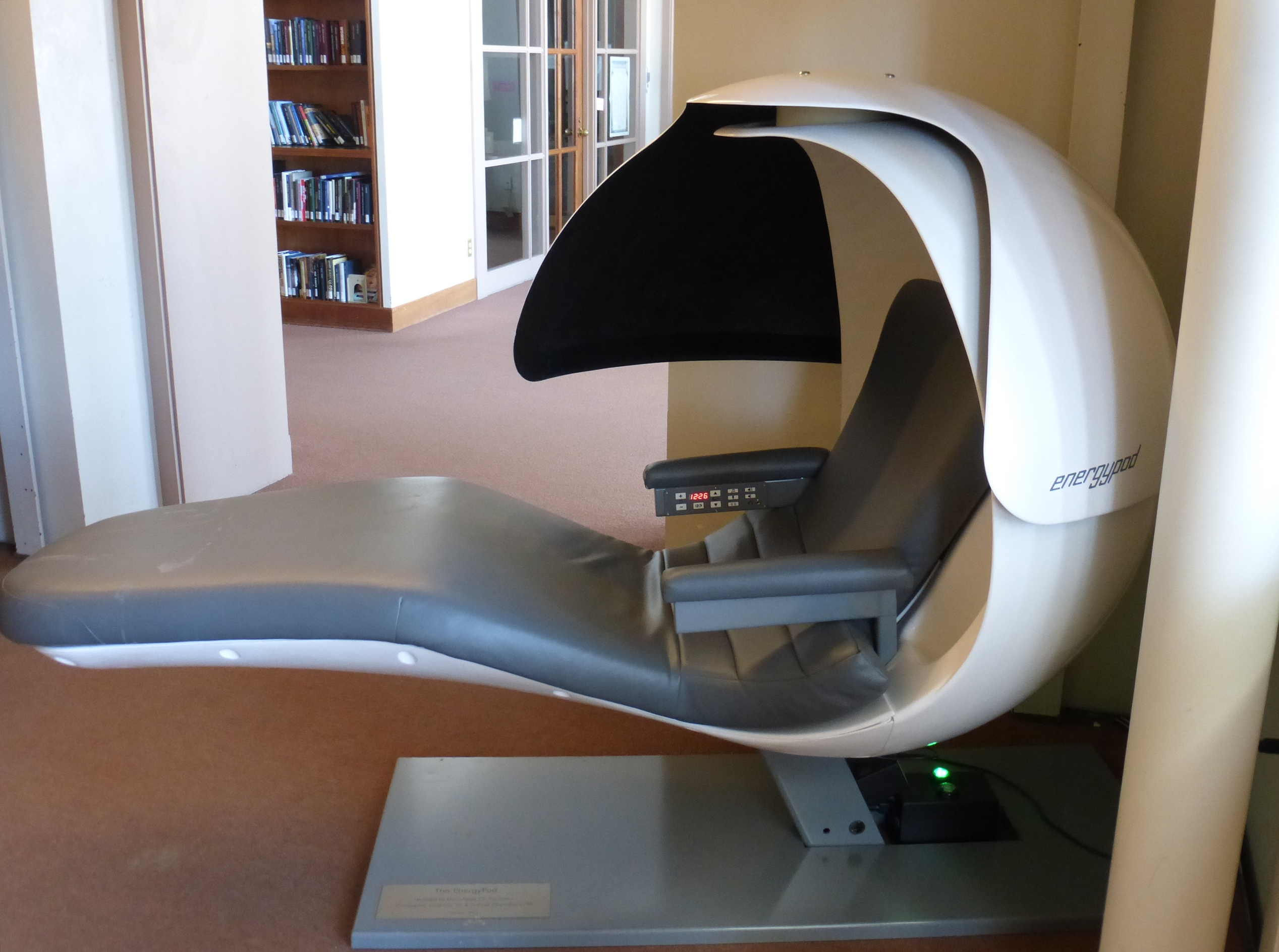 EnergyPod in a small nap room at the Olin Memorial Library of Wesleyan University in Middletown Connecticut